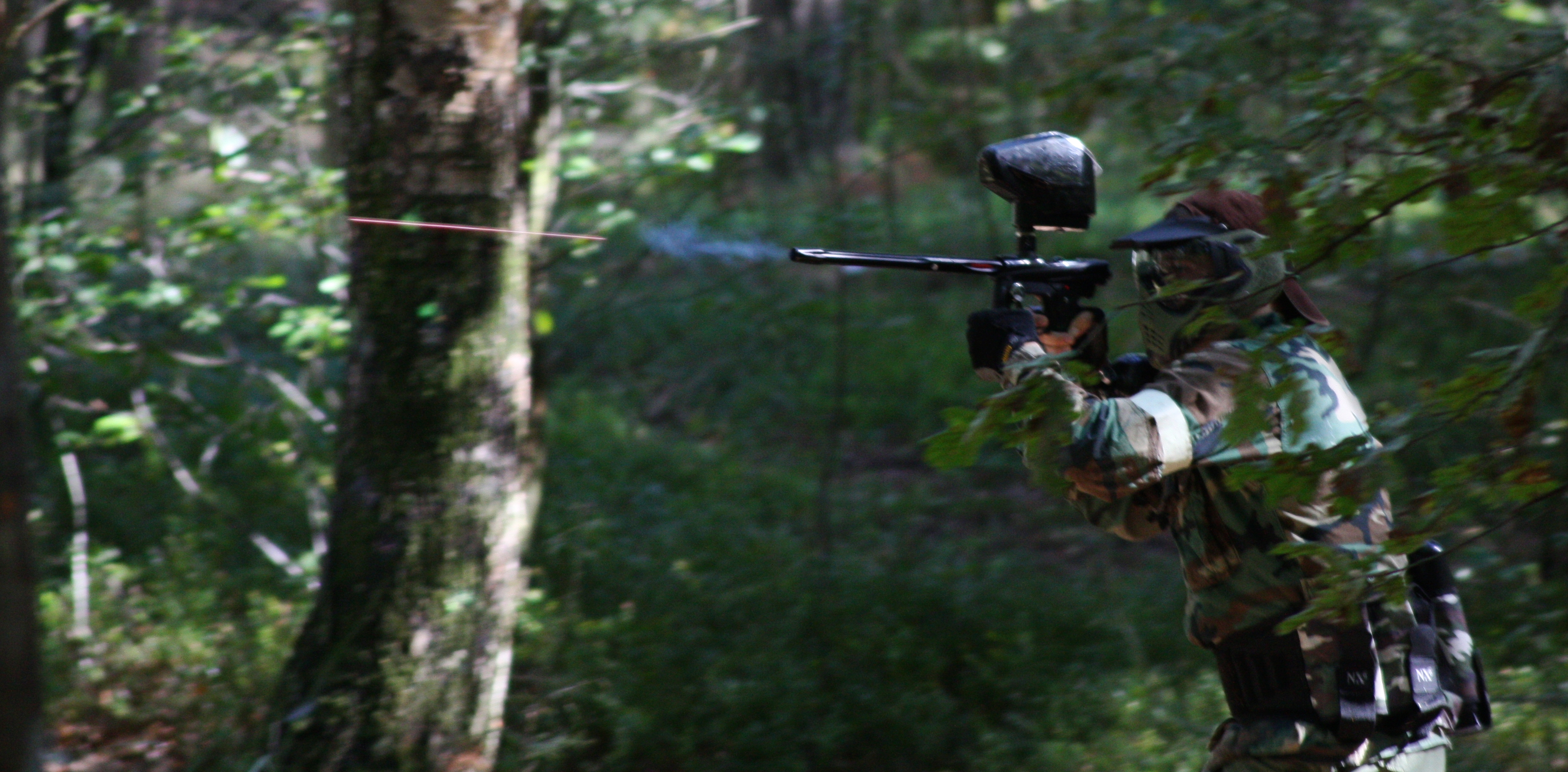 Paintball player